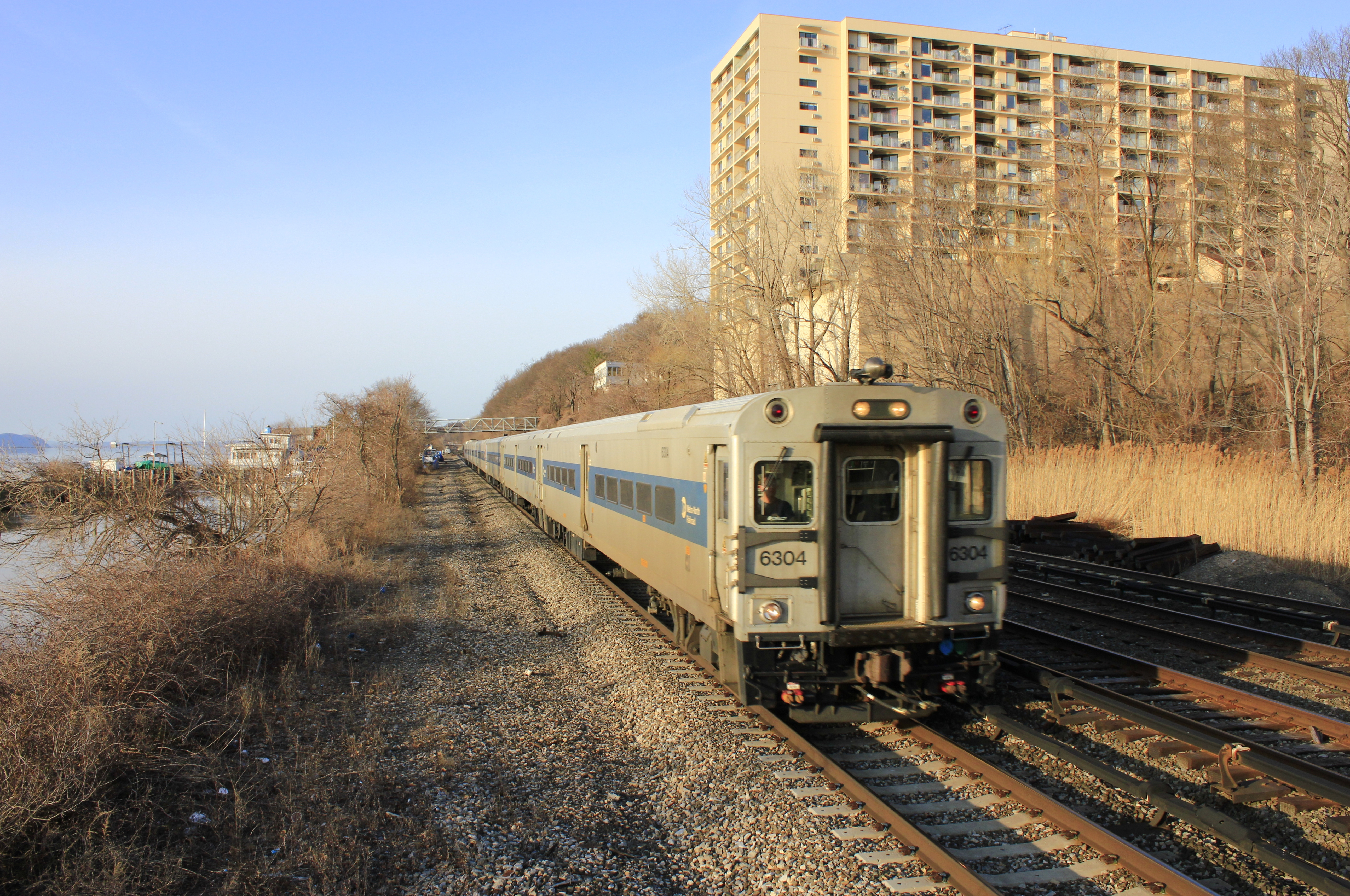 Metro-North Shoreliner III car at Greystone, Yonkers, New York